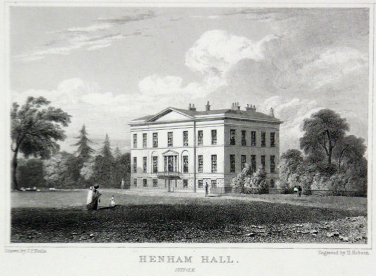 Engraving of Henham Hall, Suffolk, from Views of the Seats of Noblemen and Gentlemen in England, Wales and Scotland. Drawn and published by John Preston Neale 1818-1829.